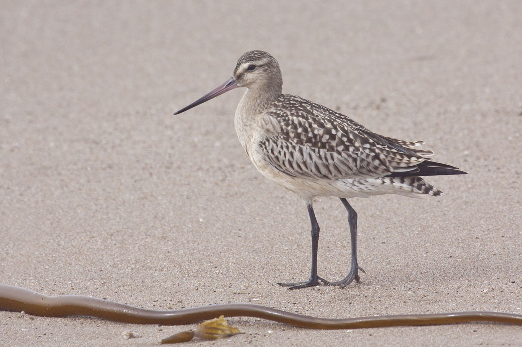 Morro Bay Sand Spit, San Luis Obispo Co., August 31, 2010. Bar-tailed Godwit is a rare vagrant in California. Flight views indicate this is race baueri, which beeds in eastern Russia to Alaska and spends non-breeding season from south China to Australasia.